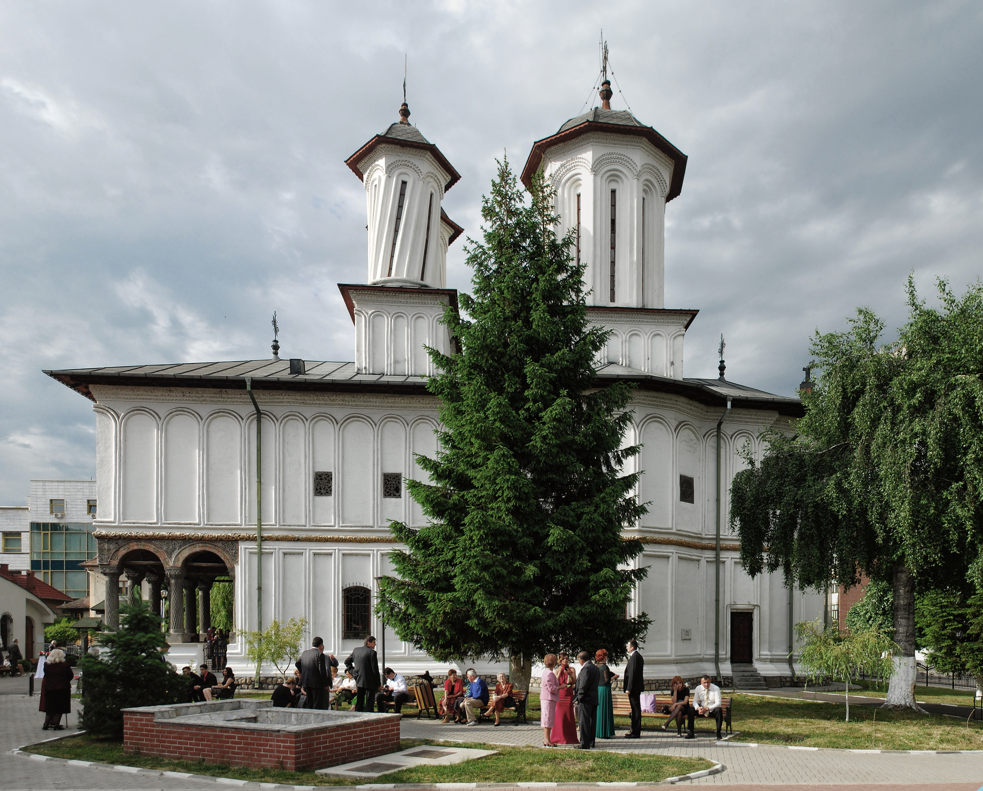 All Saints' church in Râmnicu Vâlcea, RomaniaRomână: Biserica Toţi Sfinţii din Râmnicu Vâlcea, România 01